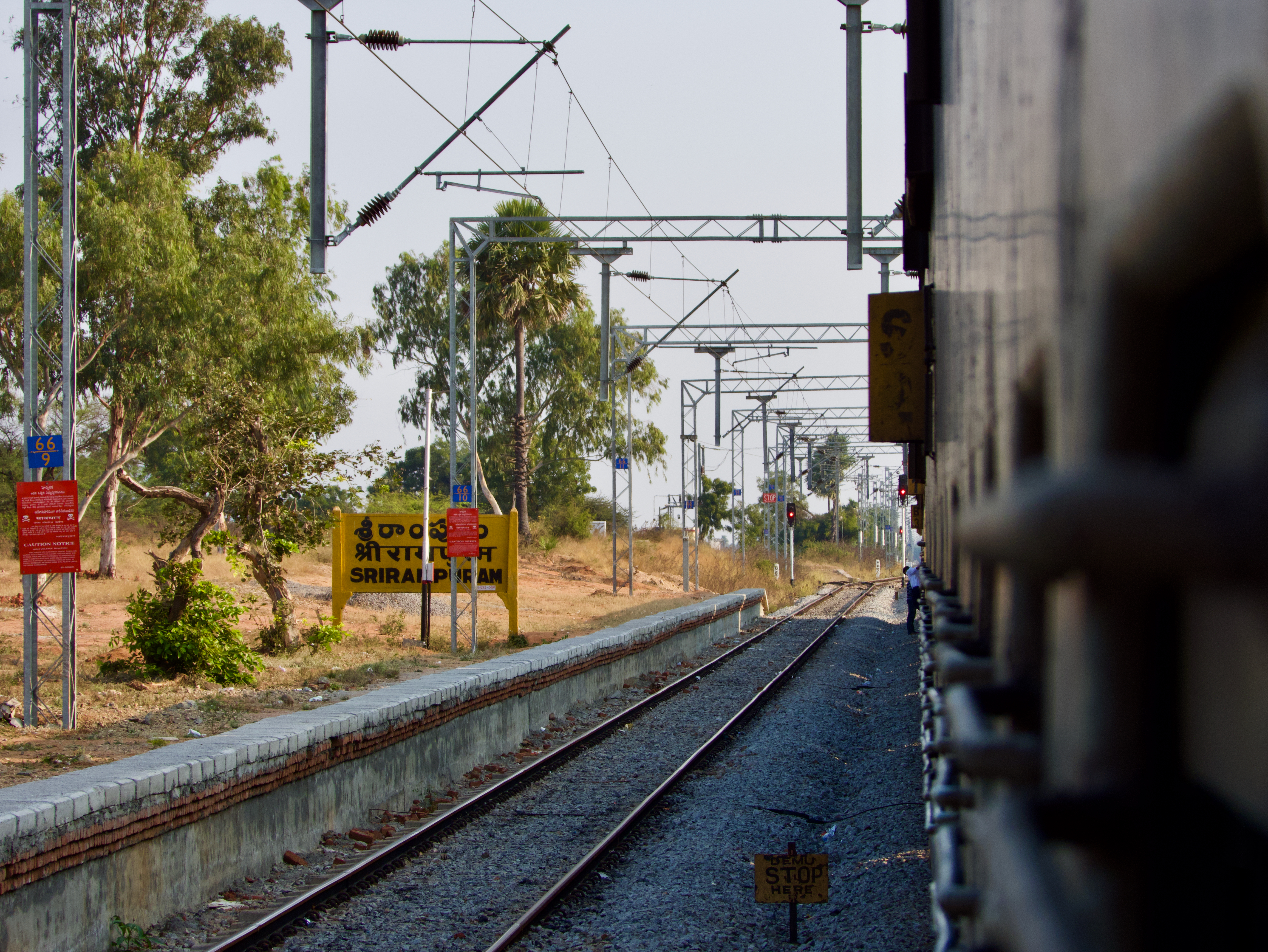 Srirampuram railway station board captured from a running train